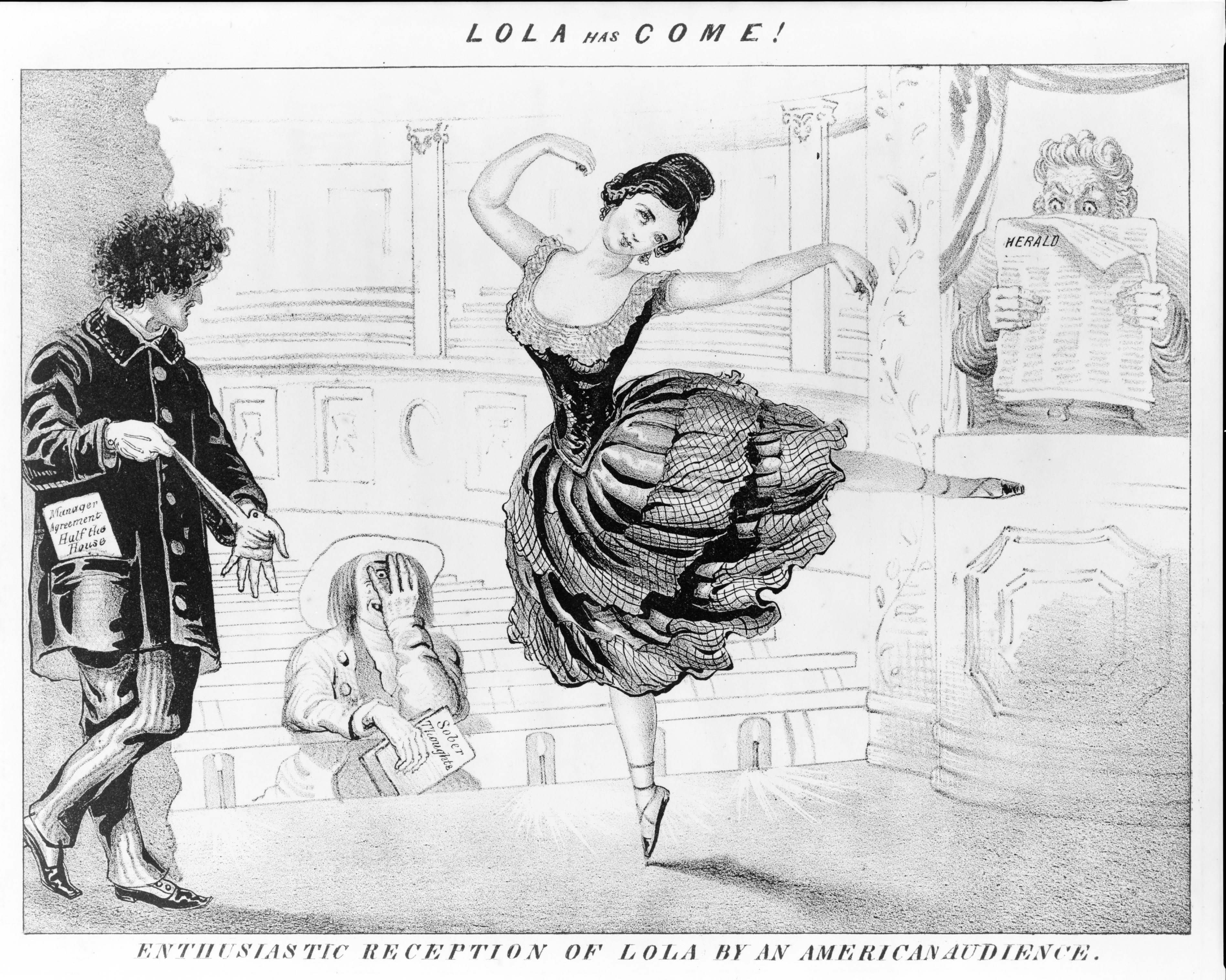 Lola has come! Enthusiastic reception of Lola by American audience. ca.1852? By D.C. Johnston. Cartoon of Lola Montez.